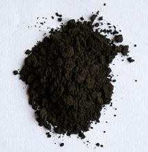 پودر تیتانیوم هیدرید که به رنگ خاکستری و سیاه موجود است